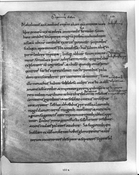 Page 150r of "Thietmari merseburgiensis episcopi chronicon".